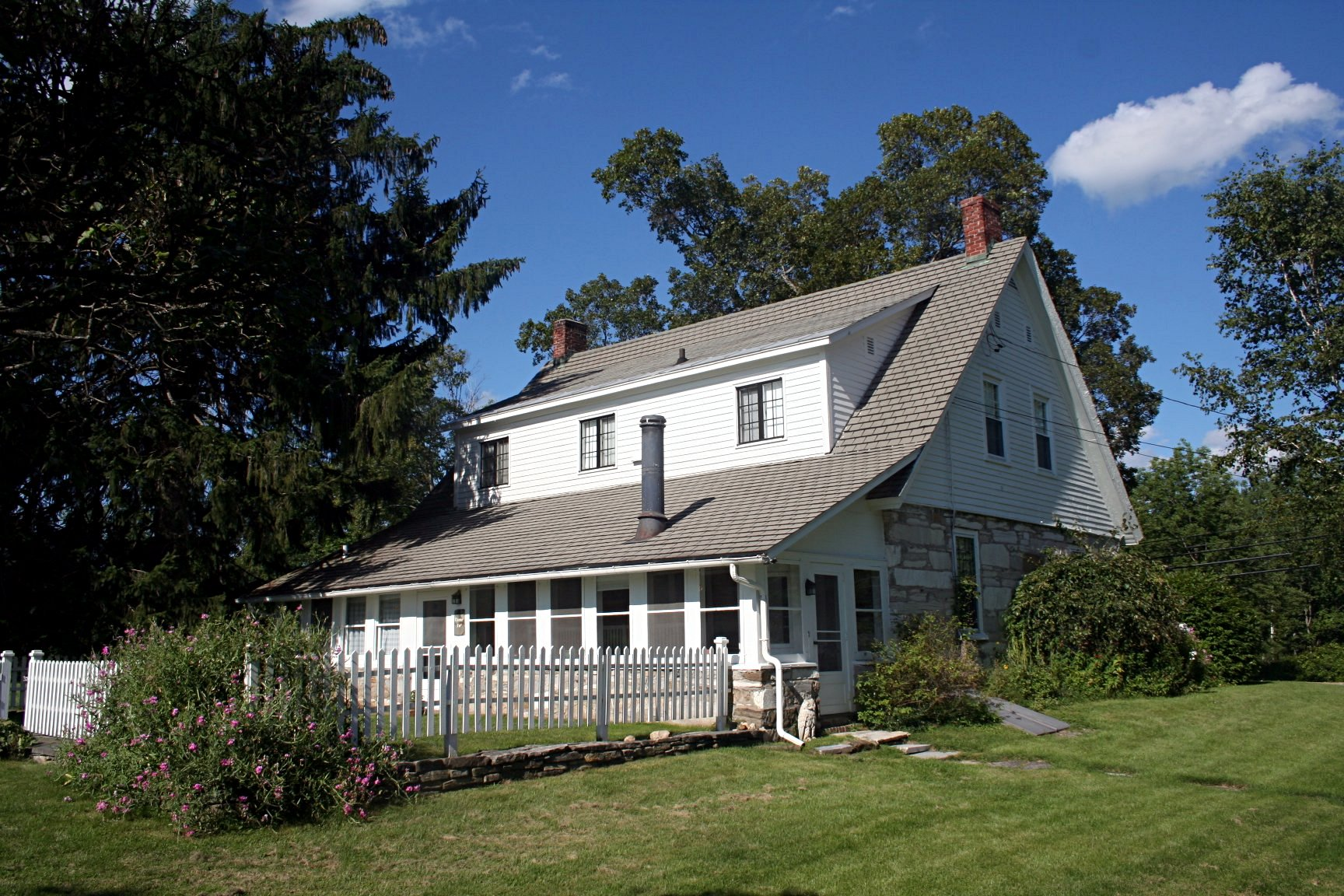 Photograph of the Robert Frost Stone House Museum, home of the poet Robert Frost from 1920 to 1929, in South Shaftsbury, Vermont, United States of America